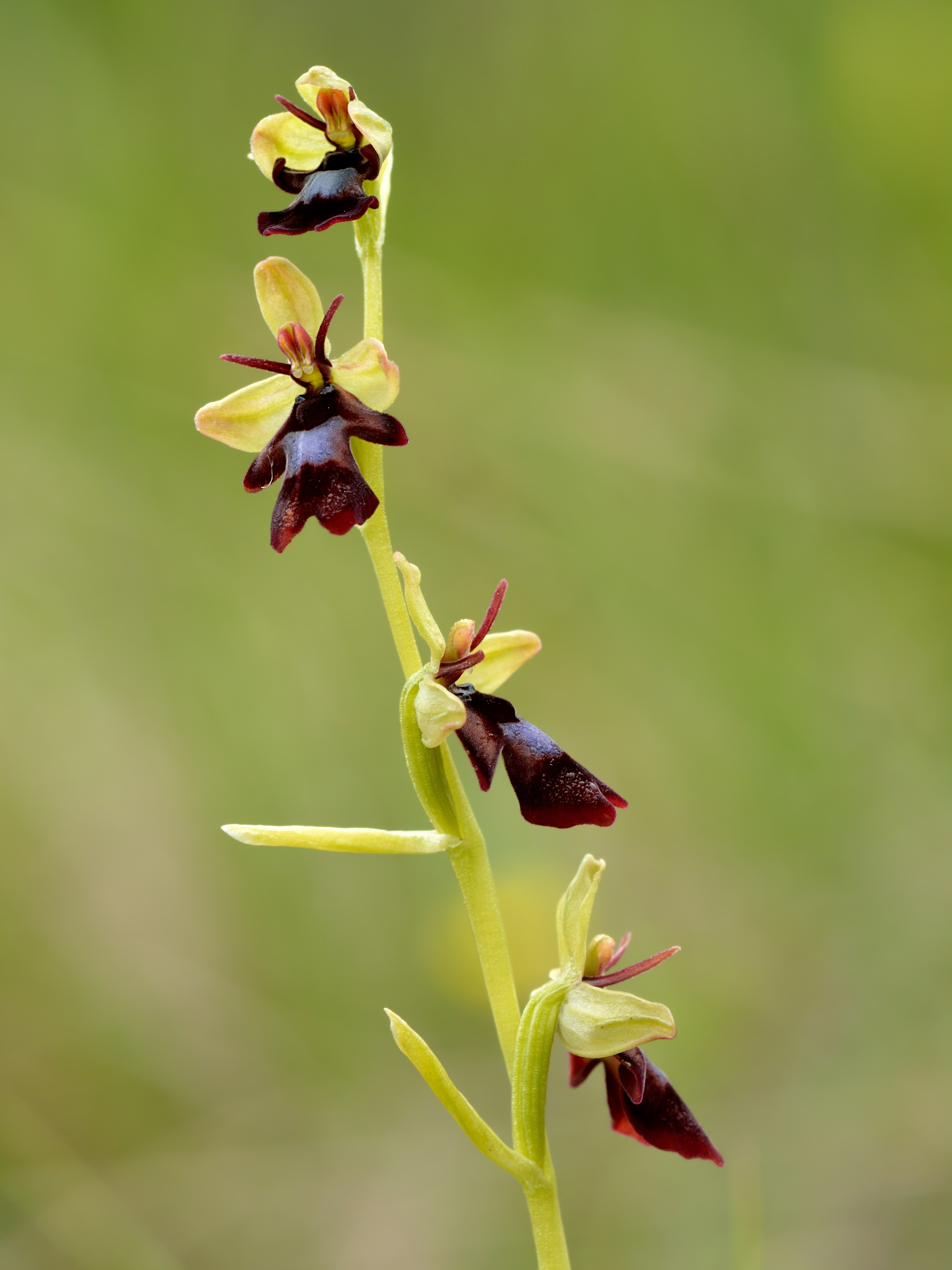 Fly orchid (Ophrys insectifera). Niitvälja bog, Northwestern Estonia.